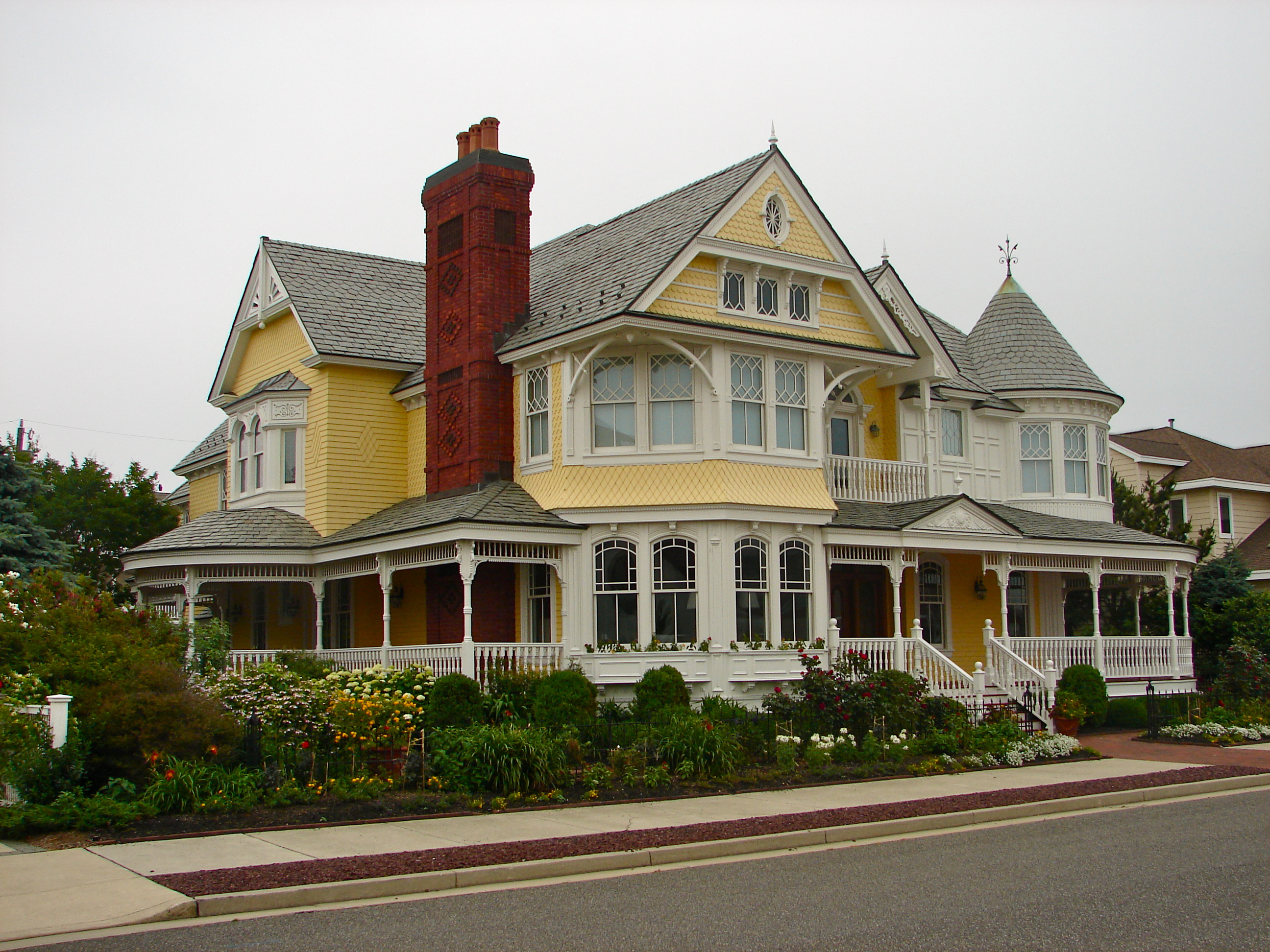 House in Longport, New Jersey across from the NRHP listed Church of the Redeemer. The house is not on the NRHP, but is much more impressive than the church.